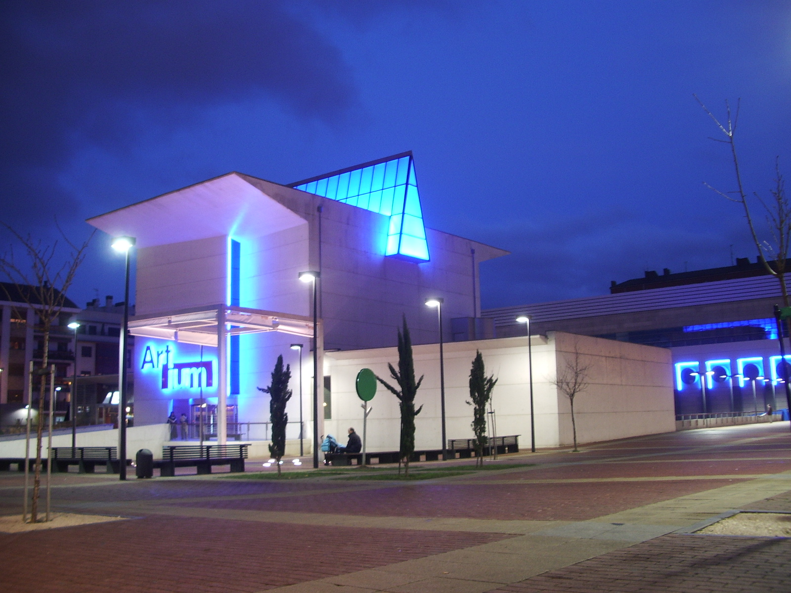 Artium museum at night, Vitoria-Gasteiz, Basque Country.